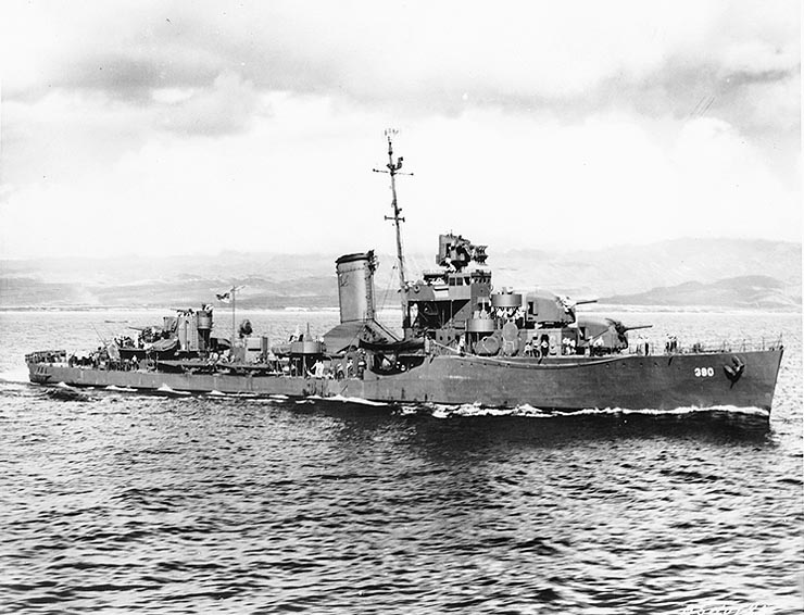 USS Ralph Talbot (DD-390) Removed caption read: Photo # 19-N-40185 USS Ralph Talbot in Hawaiian waters, circa January 1943